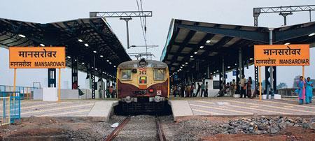 It is the front view of the Kamothe's Mansarovar Railway Station in Navi Mumbai on the Harbour line of Mumbai suburban railway.